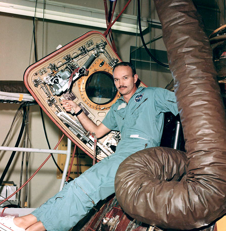 Michael Collins sitting in the hatch of the command module after the Apollo 11 flight. It is in MSC's Lunar Receiving Laboratory for inspection.